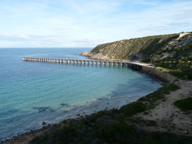 The Stenhouse Bay jetty jutting out into Investigator Strait, Yorke Peninsula